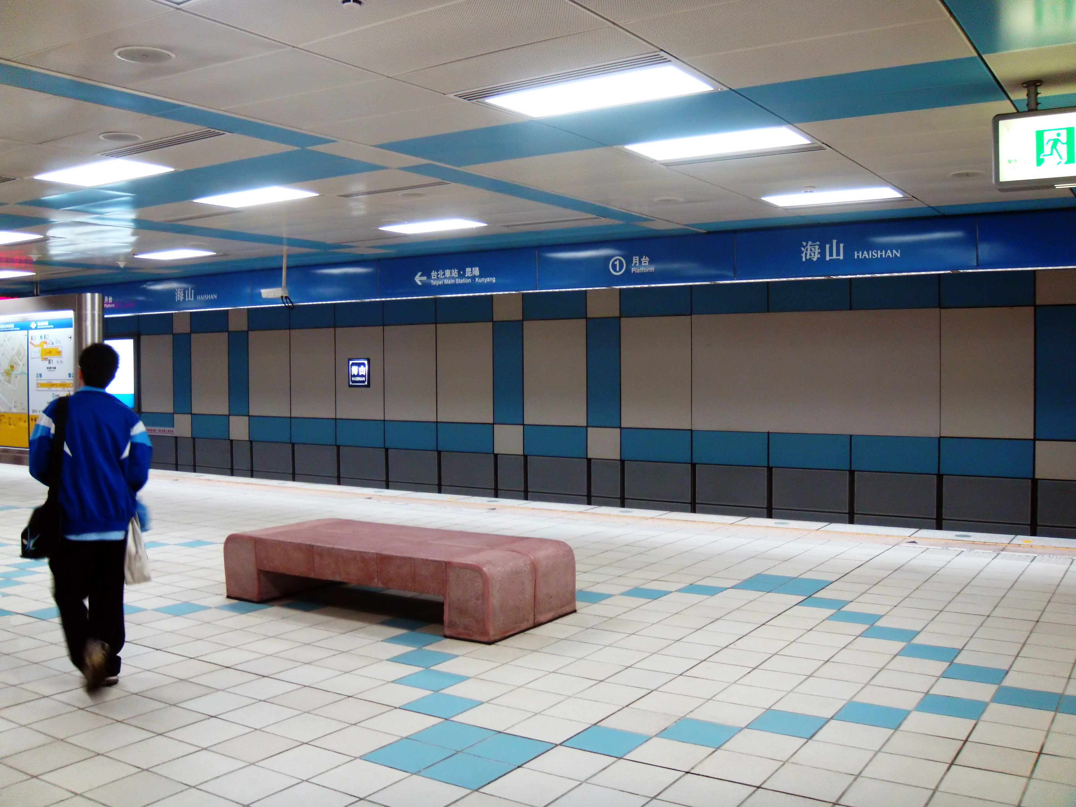 Haishan Station, Banqiao Line, Taipei Metro, Taiwan.